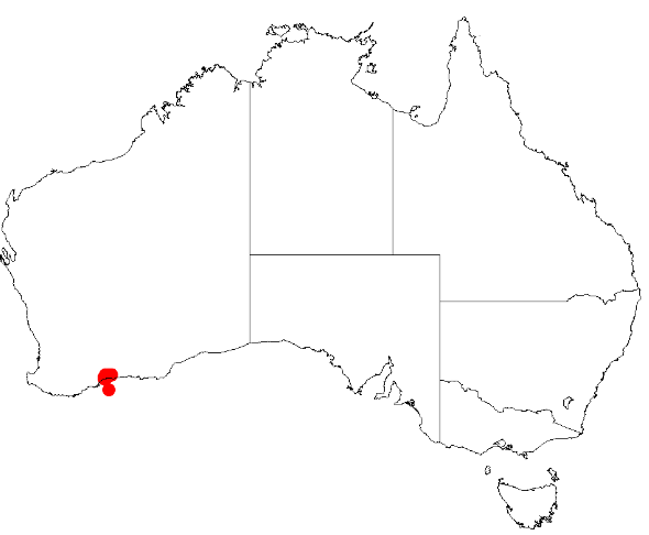 Acacia argutifolia occurrence data from AVH from on 8 December 2018